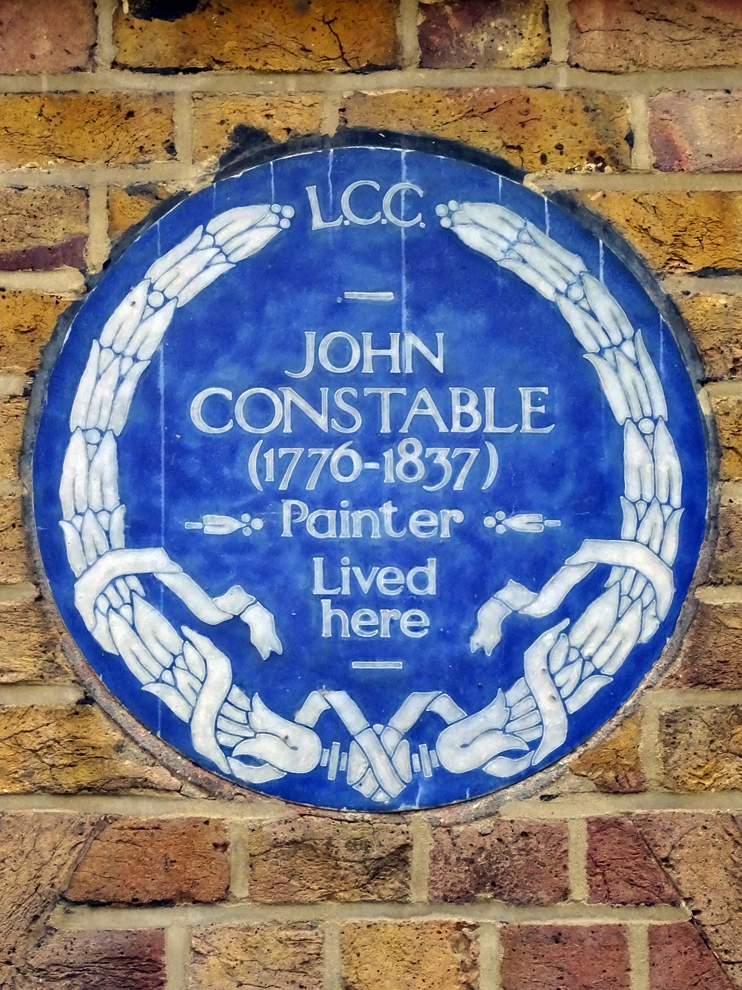 Blue plaque erected in 1923 by London County Council at 40 Well Walk, Hampstead, London NW3 1BX, London Borough of Camden